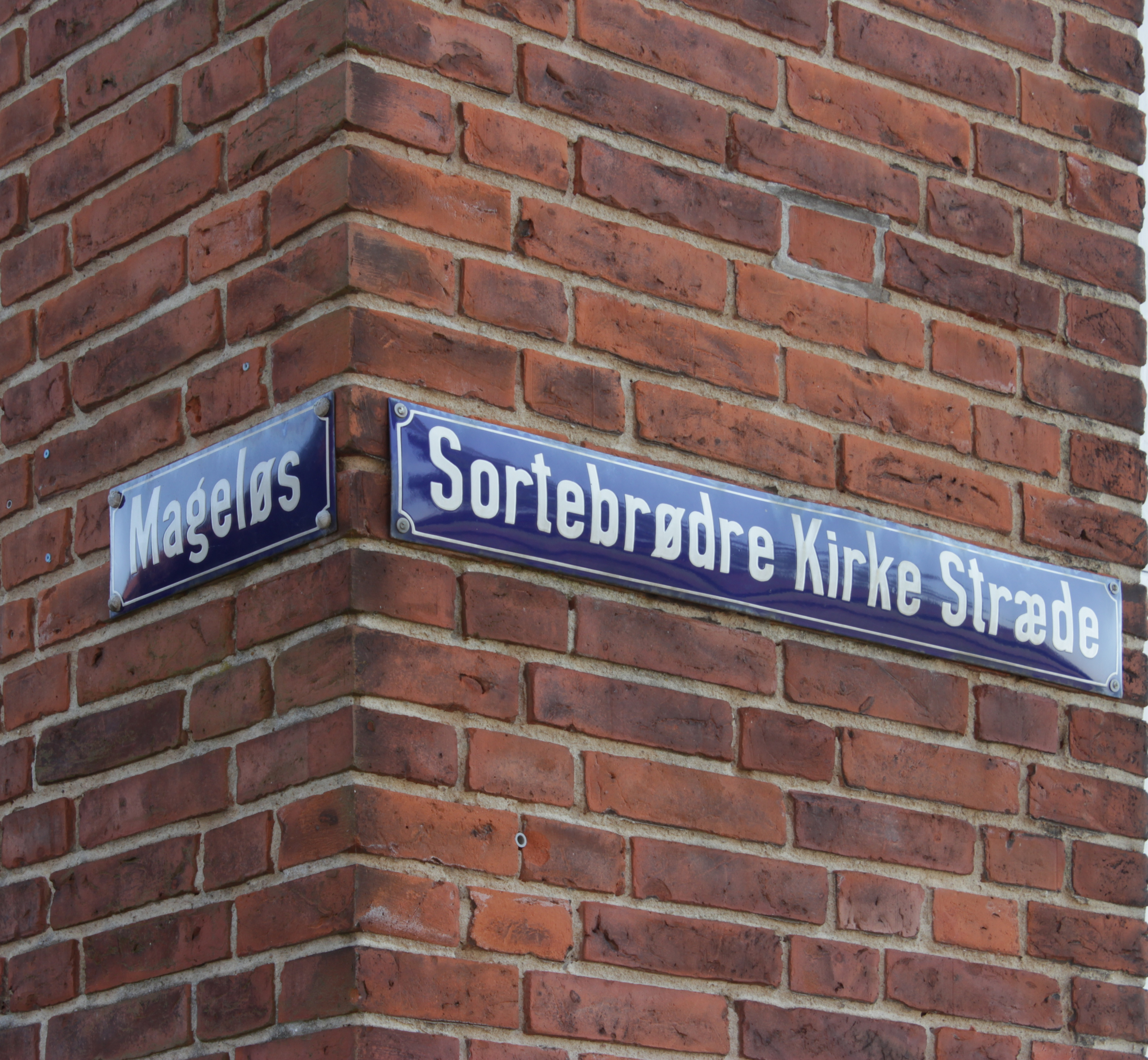 Corner between the roads Mageløs (Marvelous) and Sortebrødre Kirke Stræde (Dominican Church Alley) in Viborg, Denmark